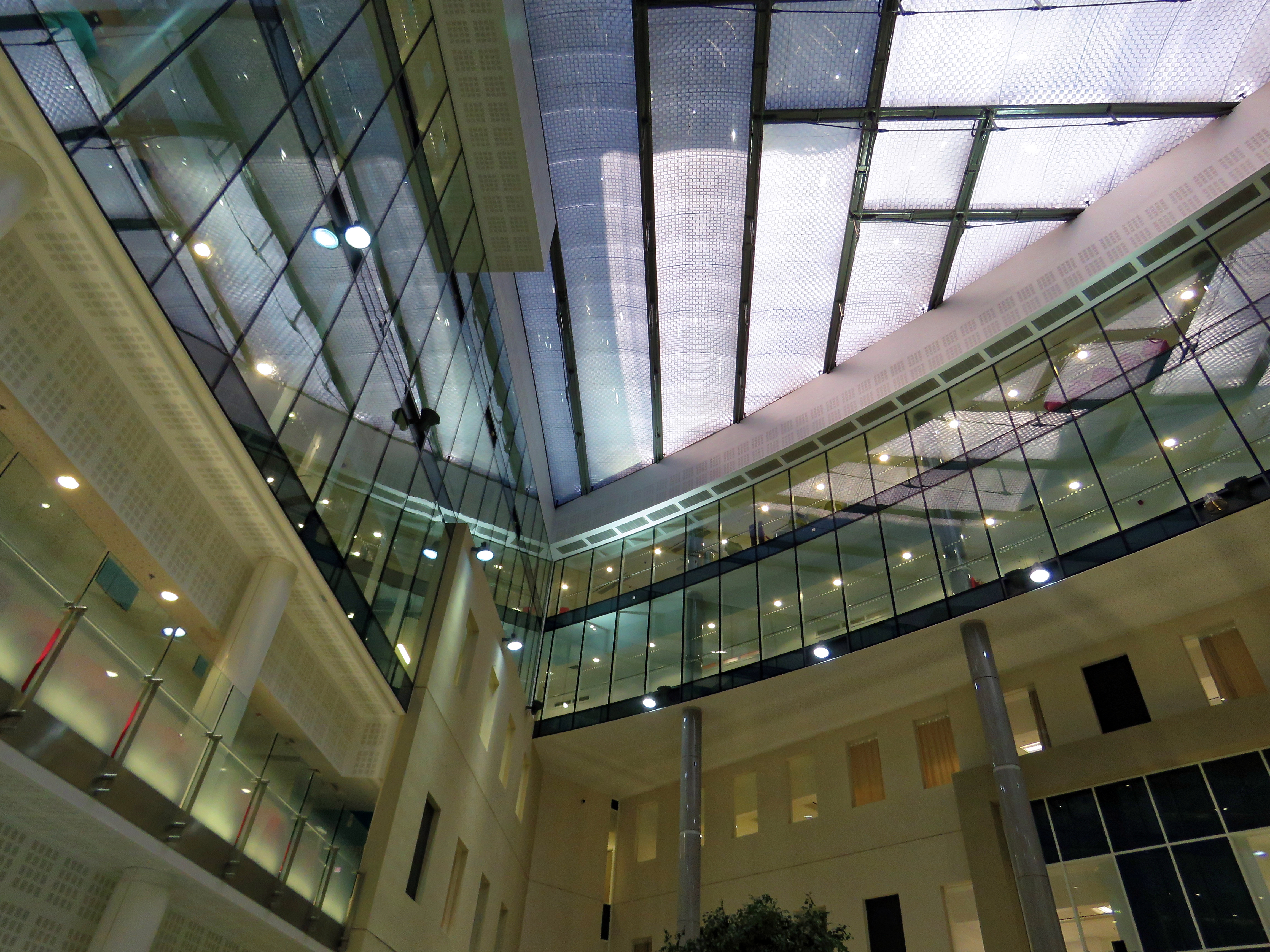 Atrium and glass ceiling in St Bartholomew's Hospital, or Barts, in the City of London, England.Camera: Canon PowerShot SX60 HS.Software: file lens-corrected and optimized with DxO PhotoLab Elite and Viewpoint 3, and further optimized with Adobe Photoshop CS2.